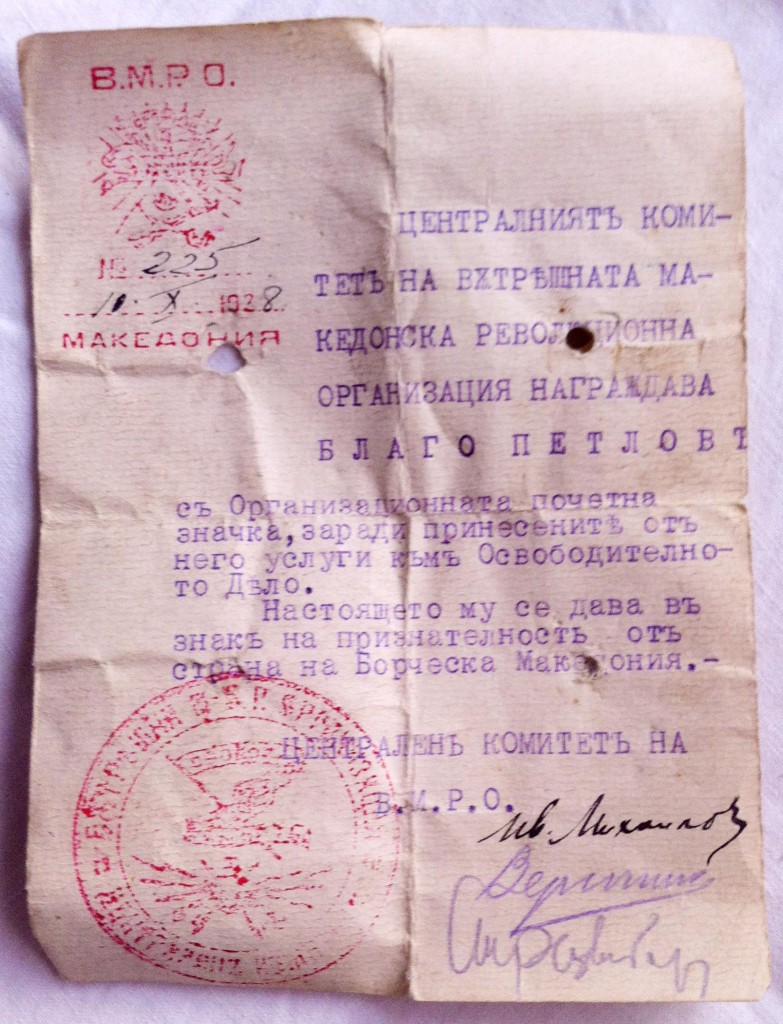 IMRO certificate of Blago Petlov 1928